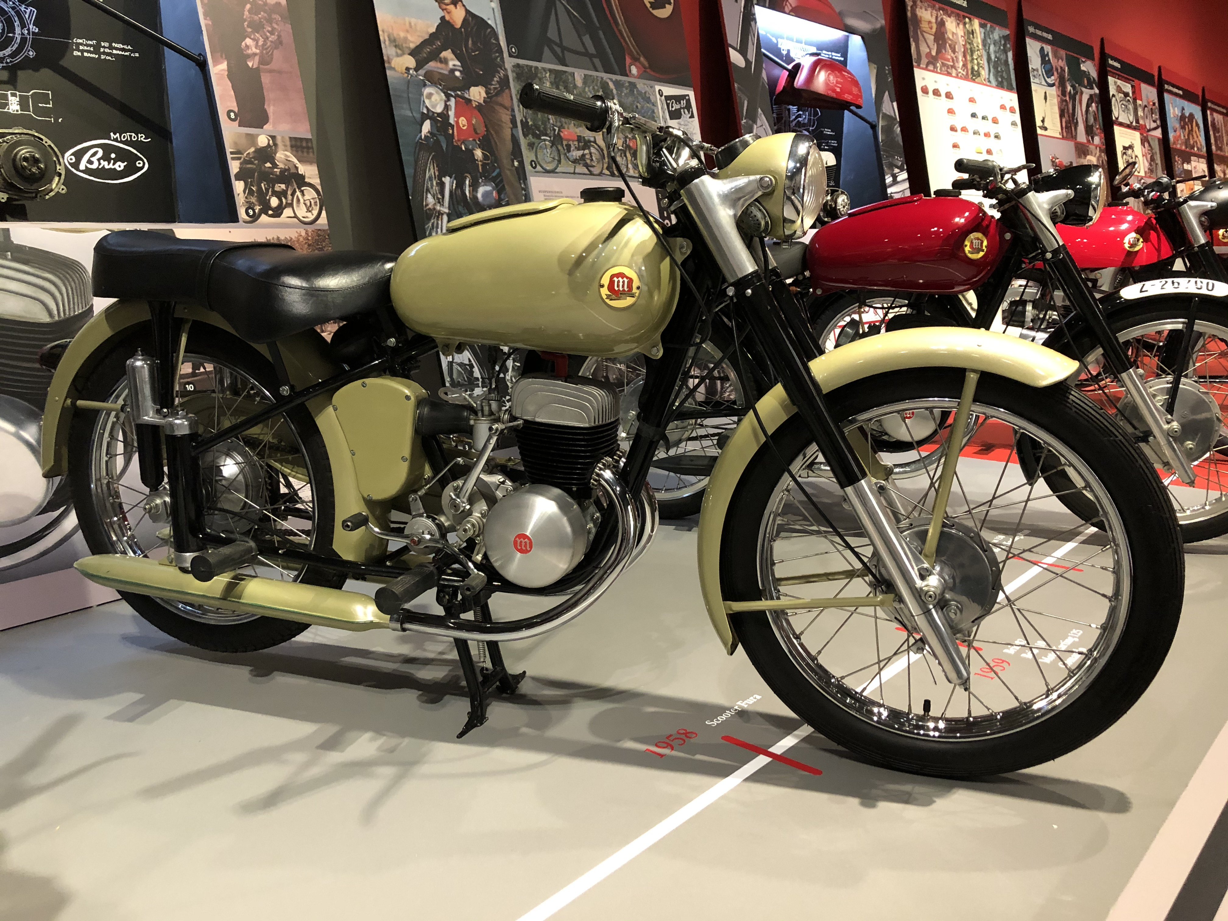 Montesa Brio 82 (1959), Mod. MB, 124.9 cc